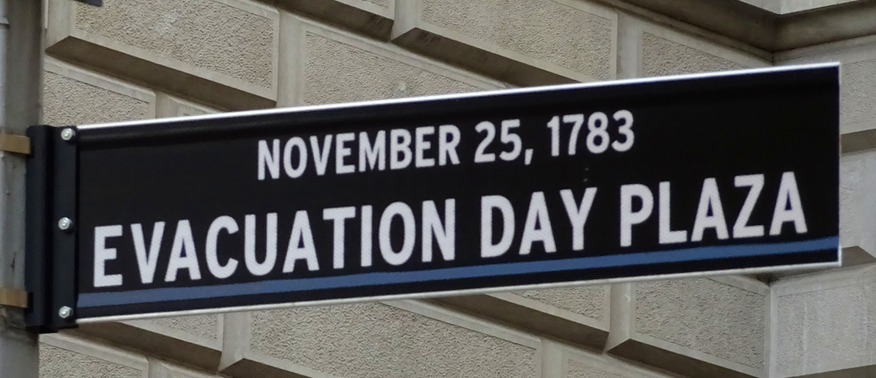 Closeup of Bowling Green Plaza street sign, installed 2016, commemorating Evacuation Day on November 25, 1783.